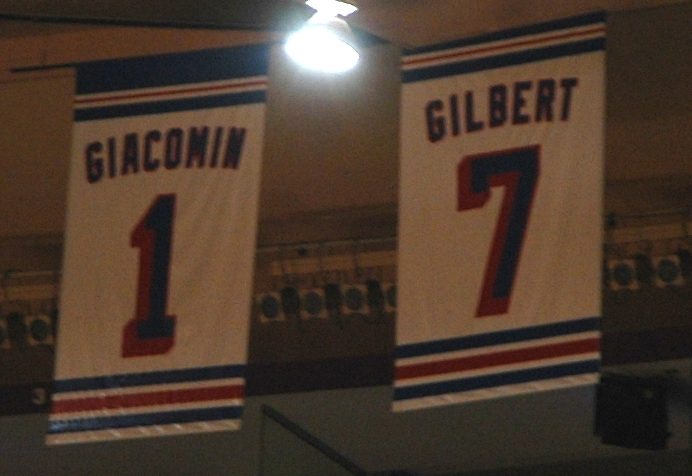 New York Rangers Retired Numbers 1 + 7 in the Madison Square Garden